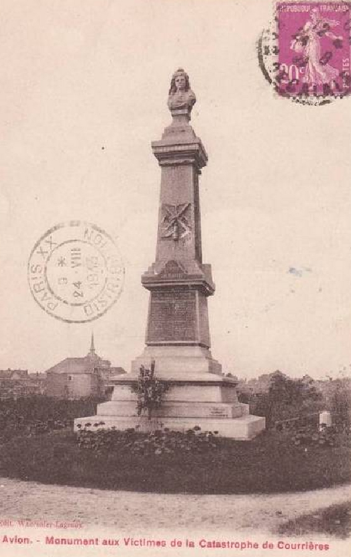 Avion, France. Monument to the victims of the Courrières mine disaster.